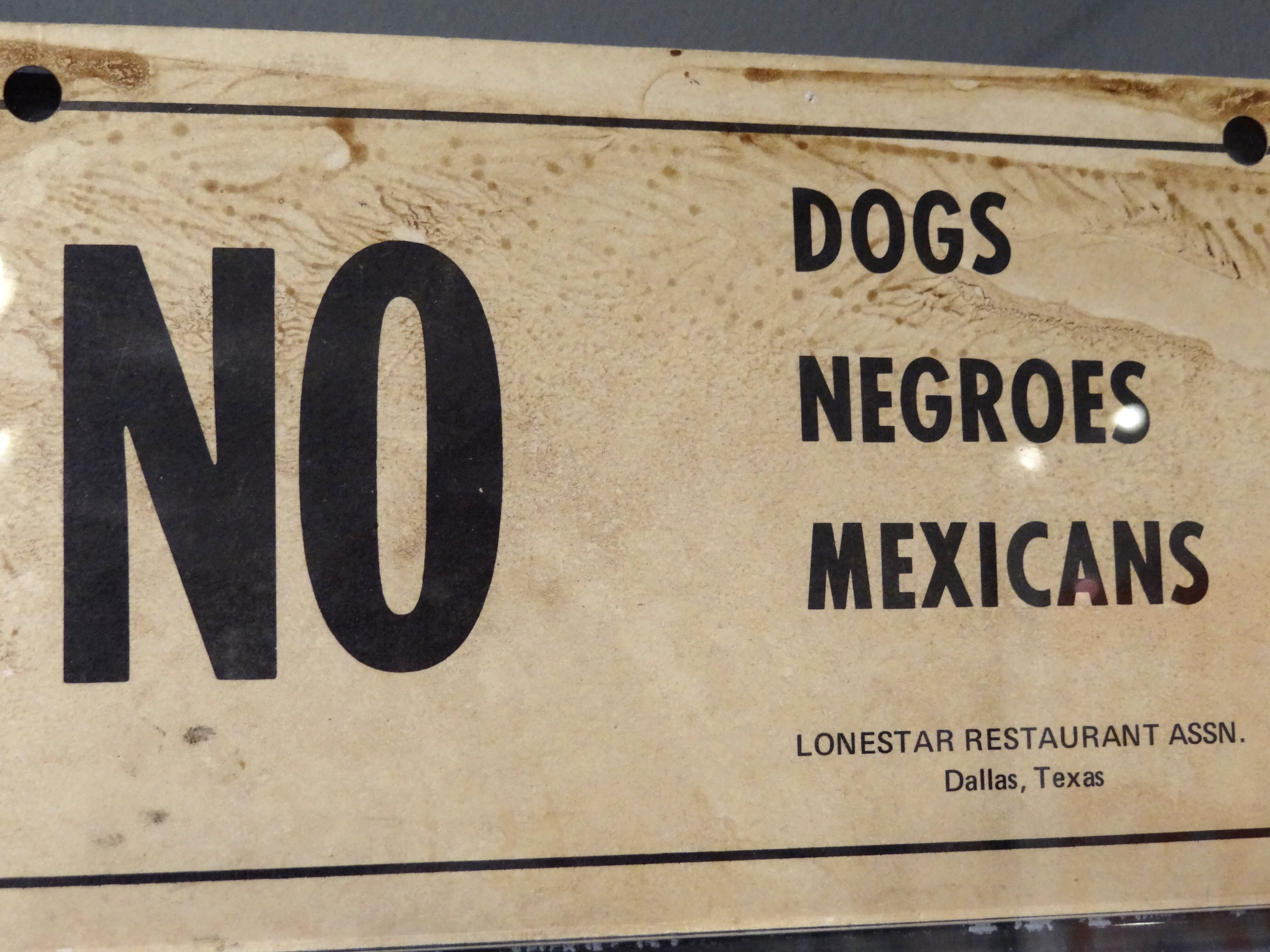 No Dogs-Negroes-Mexicans - Racist Sign from Deep South - National Civil Rights Museum - Downtown Memphis - Tennessee - USA